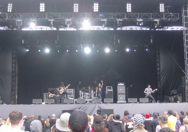 Photo of the band Cry For Silence opening up the Tuborg Stage at DOWNLOAD Festival on Sunday 15th June, 2008